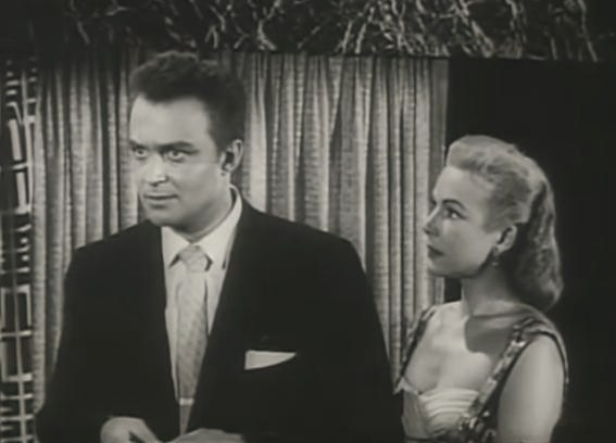 Lance Fuller and Cathy Downs in The She-Creature (1956) - trailer (cropped screenshot)